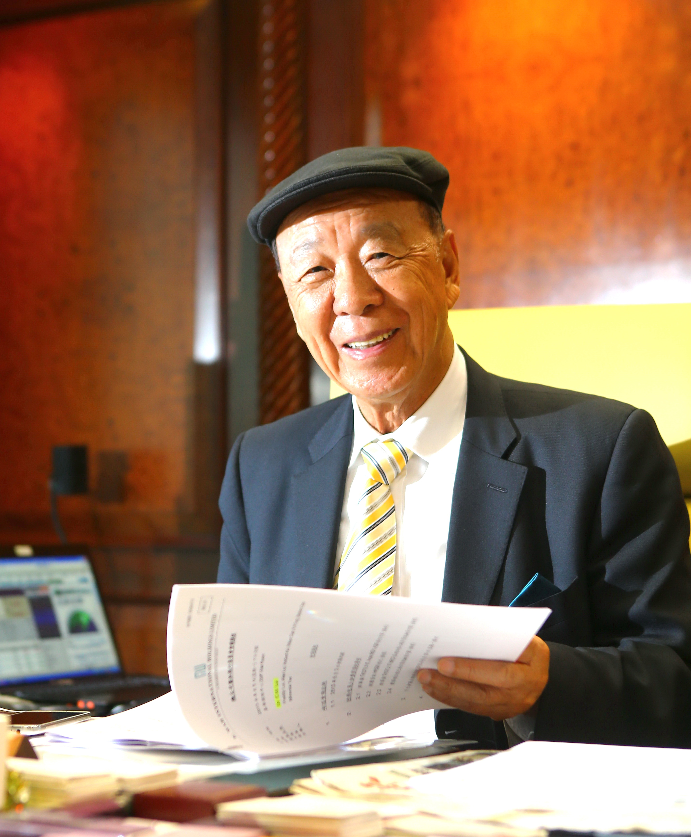 Dr Lui Che Woo